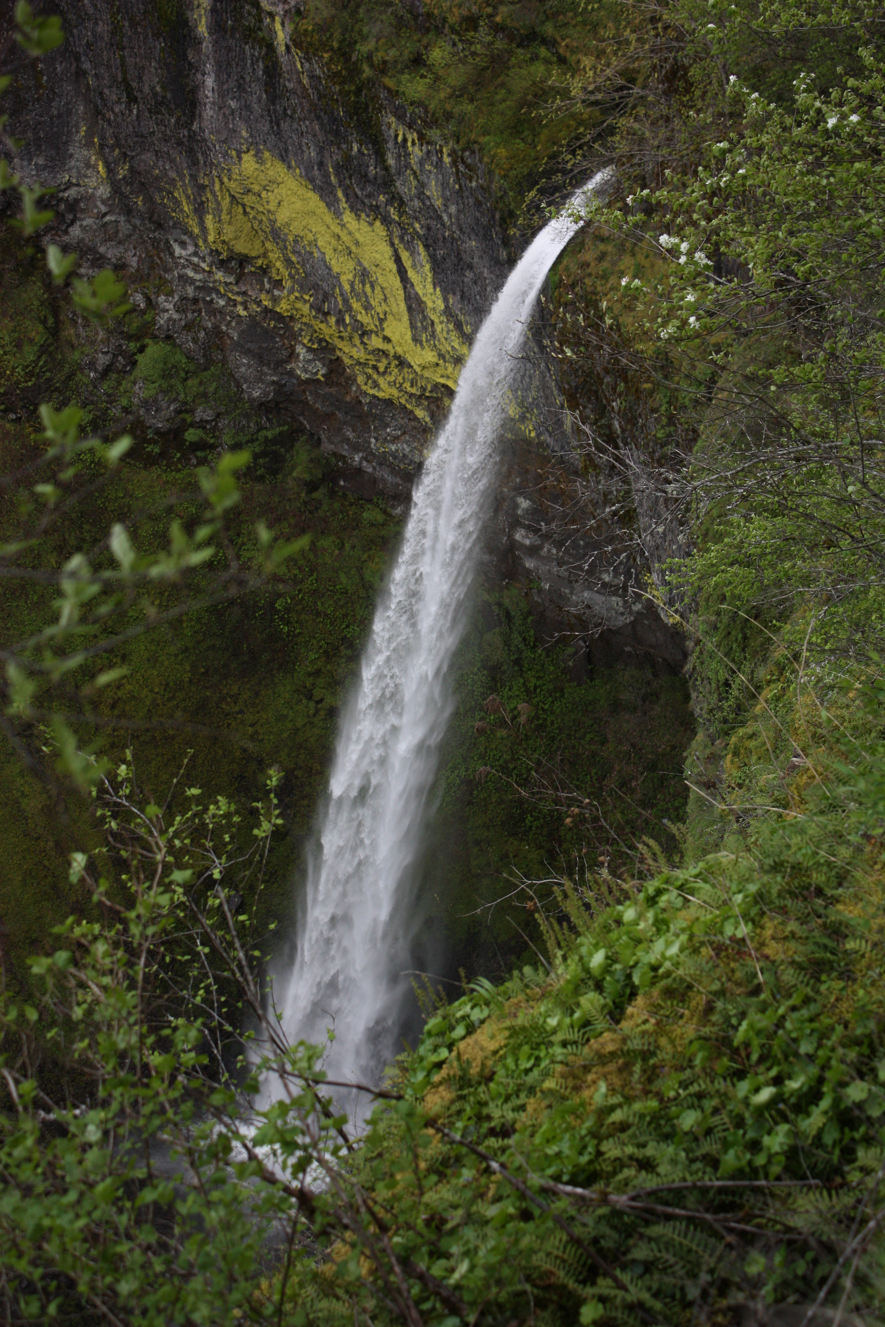 Elowah Falls 213 feet, 65 m[1]